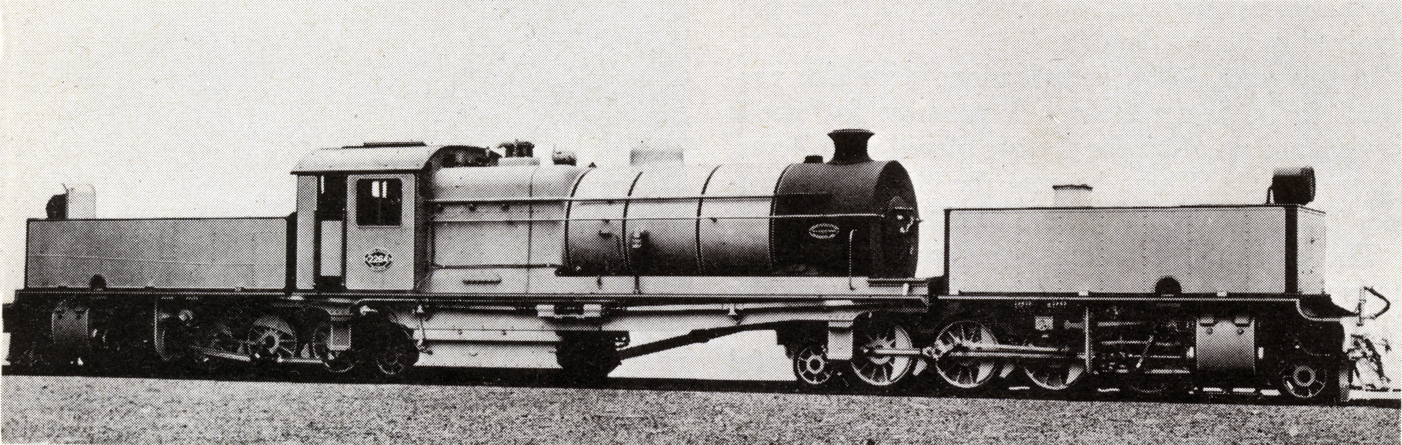 South African Railways first batch Class GE no. 2264 works picture